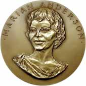 Bronze duplicate of Marian Anderson Congressional Gold Medal (front)